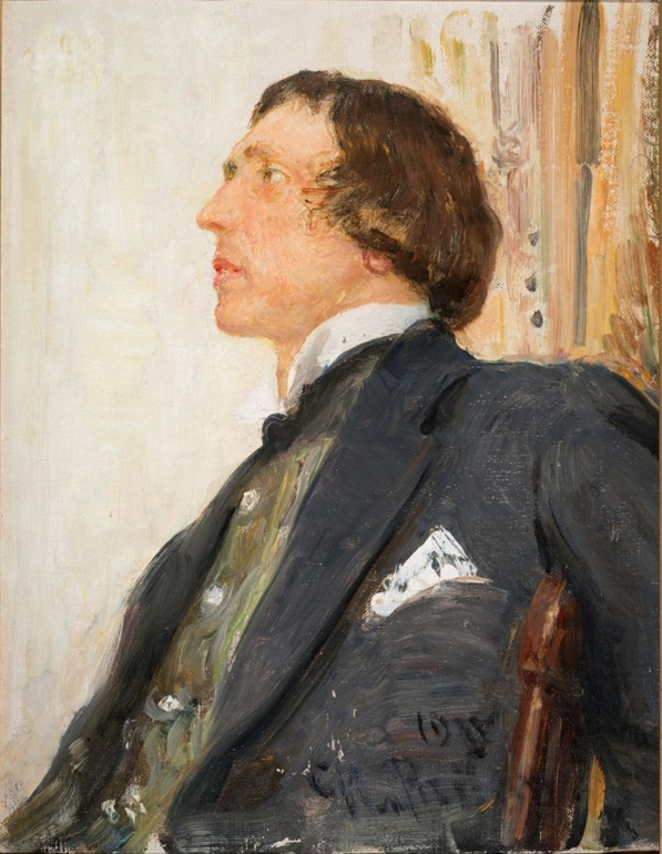 Portrait of dramatist, theatre director, theoretician and historian Nikolai Nikolayevich Evreinov